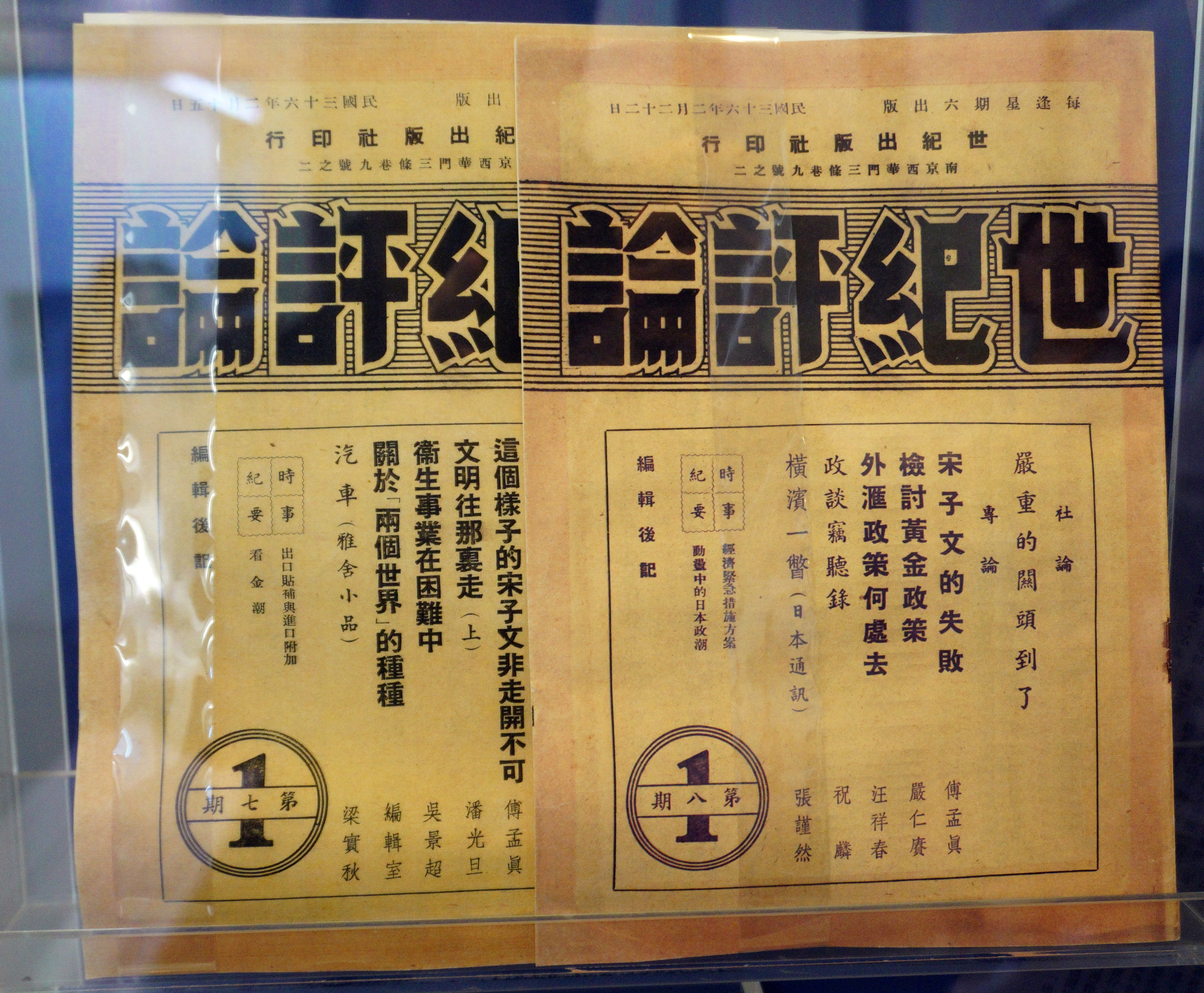 Fu Ssu-nien have published articles in February 1947.